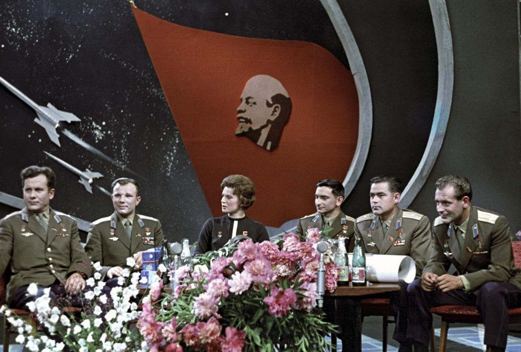 “USSR pilot-cosmonauts at TV studio”. USSR pilot-cosmonauts at a TV studio (from left to right): Pavel Popovich, Yuri Gagarin, Valentina Tereshkova, Valeri Bykovsky, Andrian Nikolayev and German Titov.